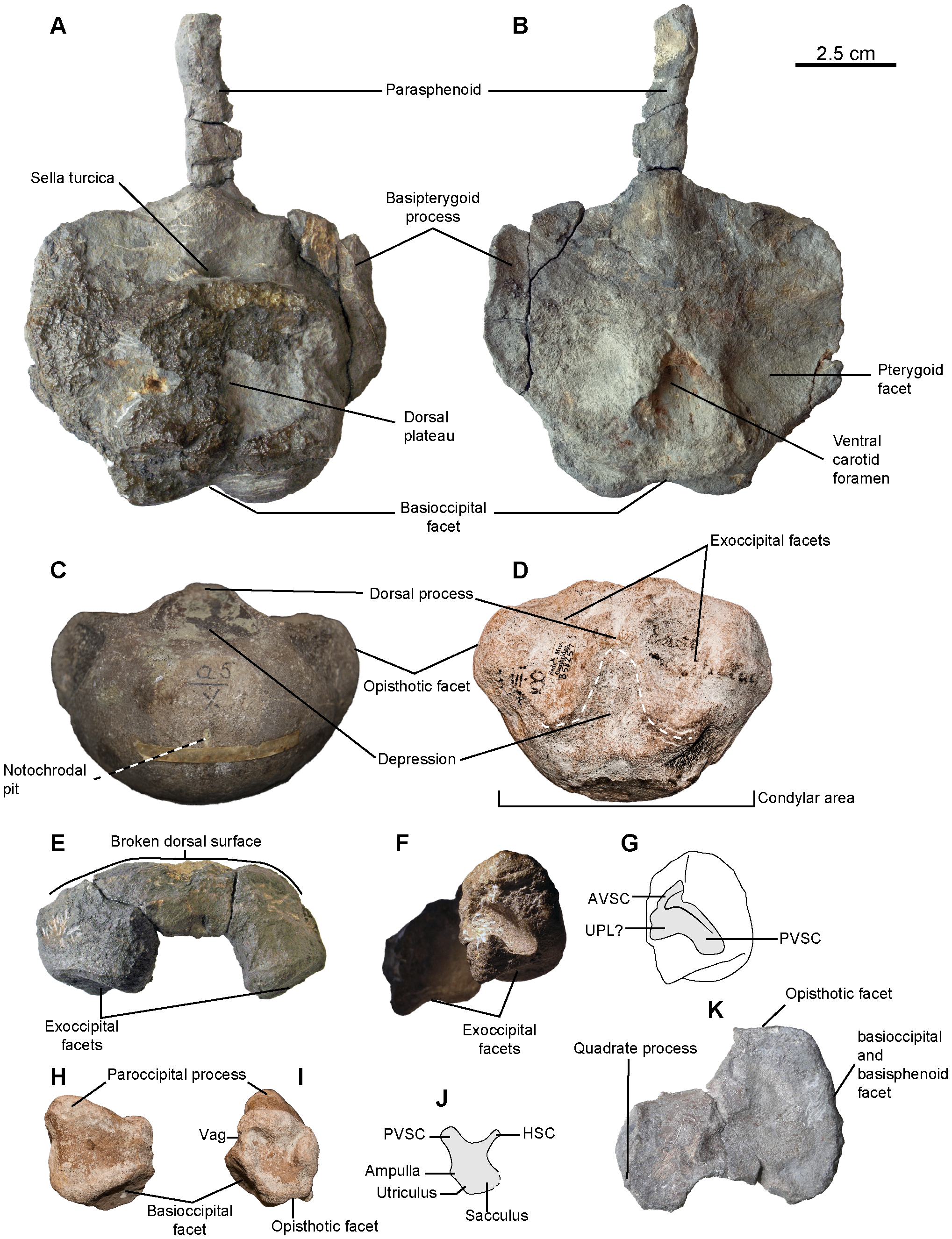 Sisteronia seeleyi, basicranium. A, B: basisphenoid (RGHP SI 2) in dorsal (A) and ventral (B) views. C: basioccipital (CAMSM B57943) in posterior view. D: holotype basioccipital (CAMSM B58257_67) in dorsal view. E–G: supraoccipital (RGHP SI 2) in posterior (E) and anterolateral (otic) (F, G) views. H–J: left opisthotic (CAMSM B58257_67) in posterior (H) and anterior (otic) (I, J) views. K: left stapes (RGHP SI 2) in posterior view. Note the extremely reduced (nearly absent) extracondylar area of the basioccipital, a platypterygiine synapomorphy, and the dorsal process posterior to a triangular depression (delineated by the thick dotted line) on the basioccipital, an autapomorphy of Sisteronia seeleyi. Abbreviations: AVSC: impression of the anterior vertical semicircular canal of the otic labyrinth; HSC: impression of the horizontal semicircular canal of the otic labyrinth; PVSC: impression of the posterior vertical semicircular canal of the otic labyrinth; UPL: impression of the utricular portion of the otic labyrinth; Vag: vagus foramen.